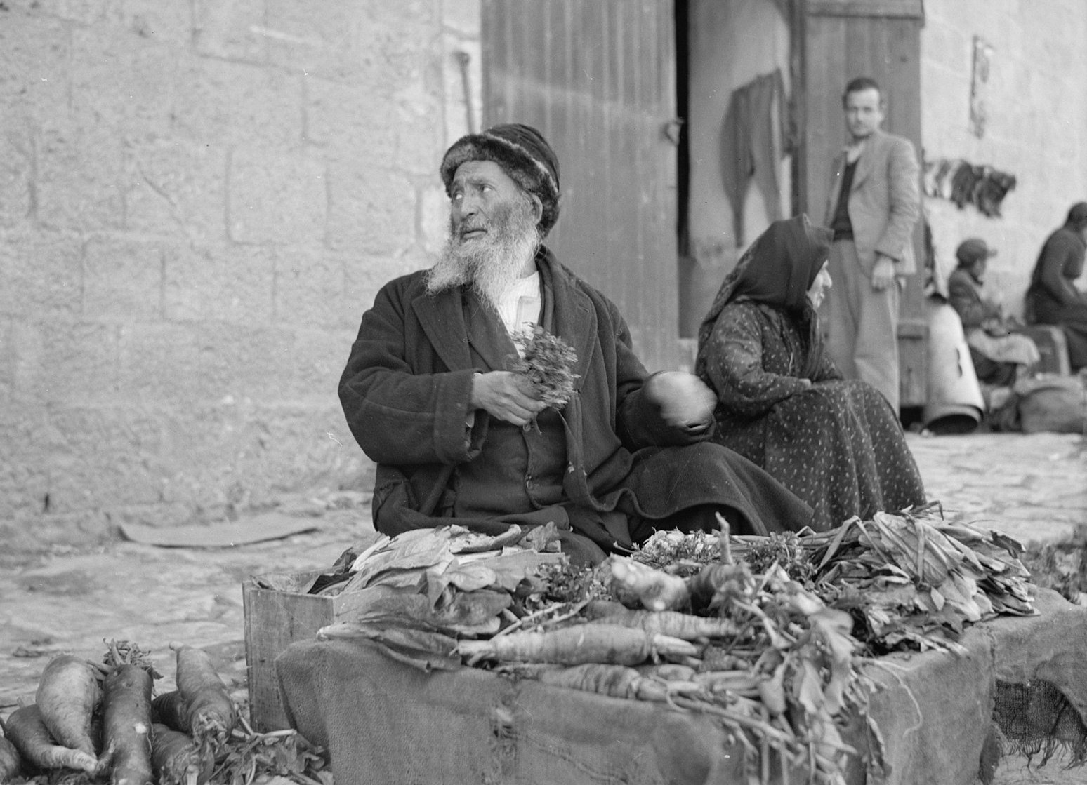 Title: Jewish market in Mea Shearim. Bokhara Quarter, Bokharian [i.e., Bukharan] type selling vegetables Abstract/medium: G. Eric and Edith Matson Photograph Collection Physical description: 1 negative